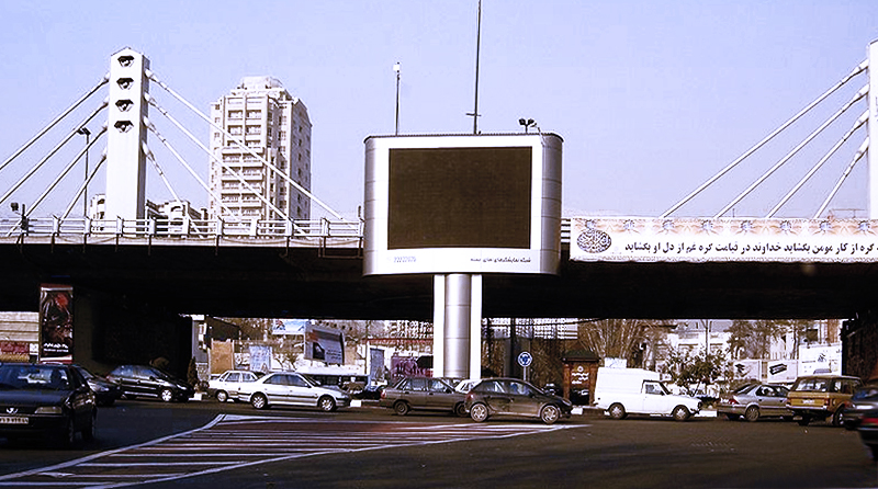 Chamran Expressway overpass on Vali Asr Ave.